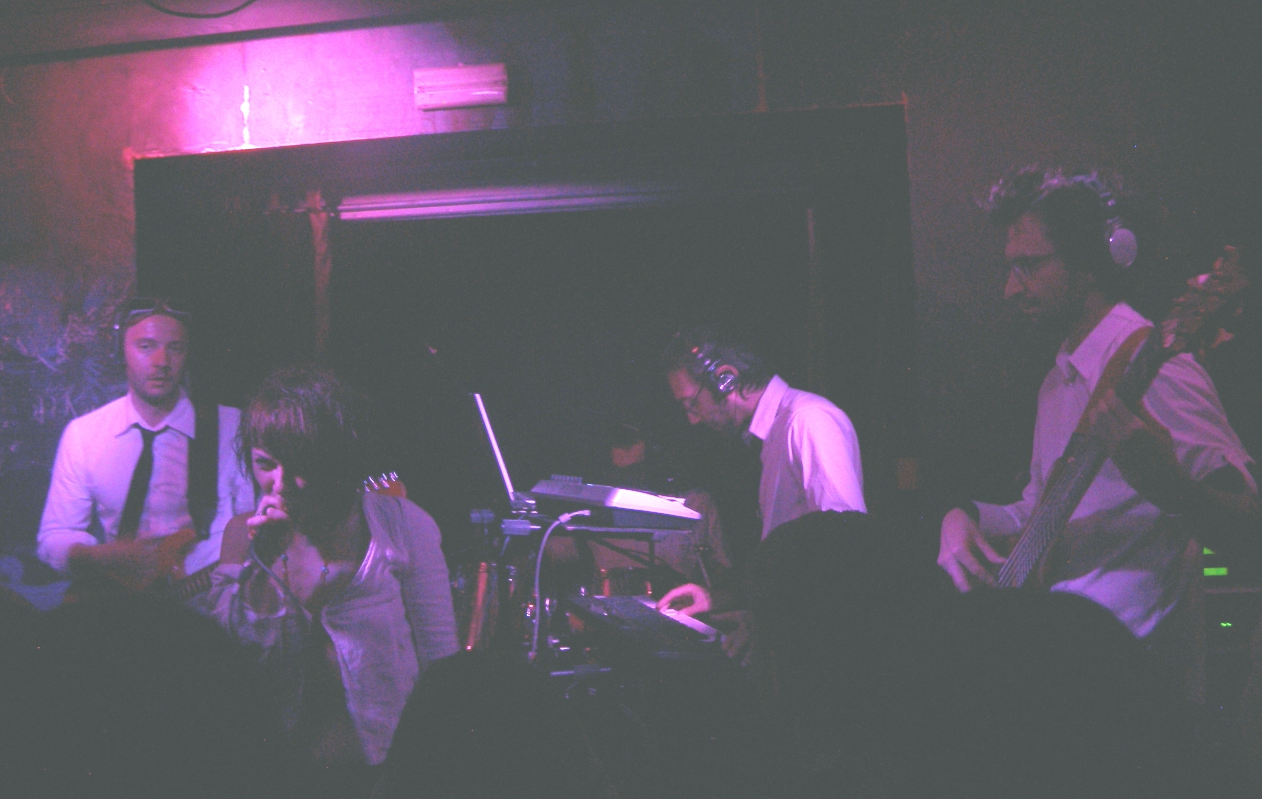 Ukrainian musical group Lюk carrying out the concert in Lviv at "Livyi Bereg" club